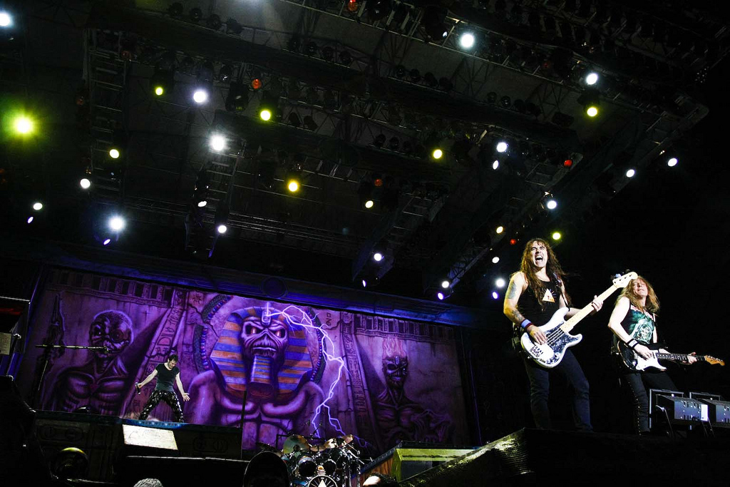 Iron Maiden live in Costa Rica 2008